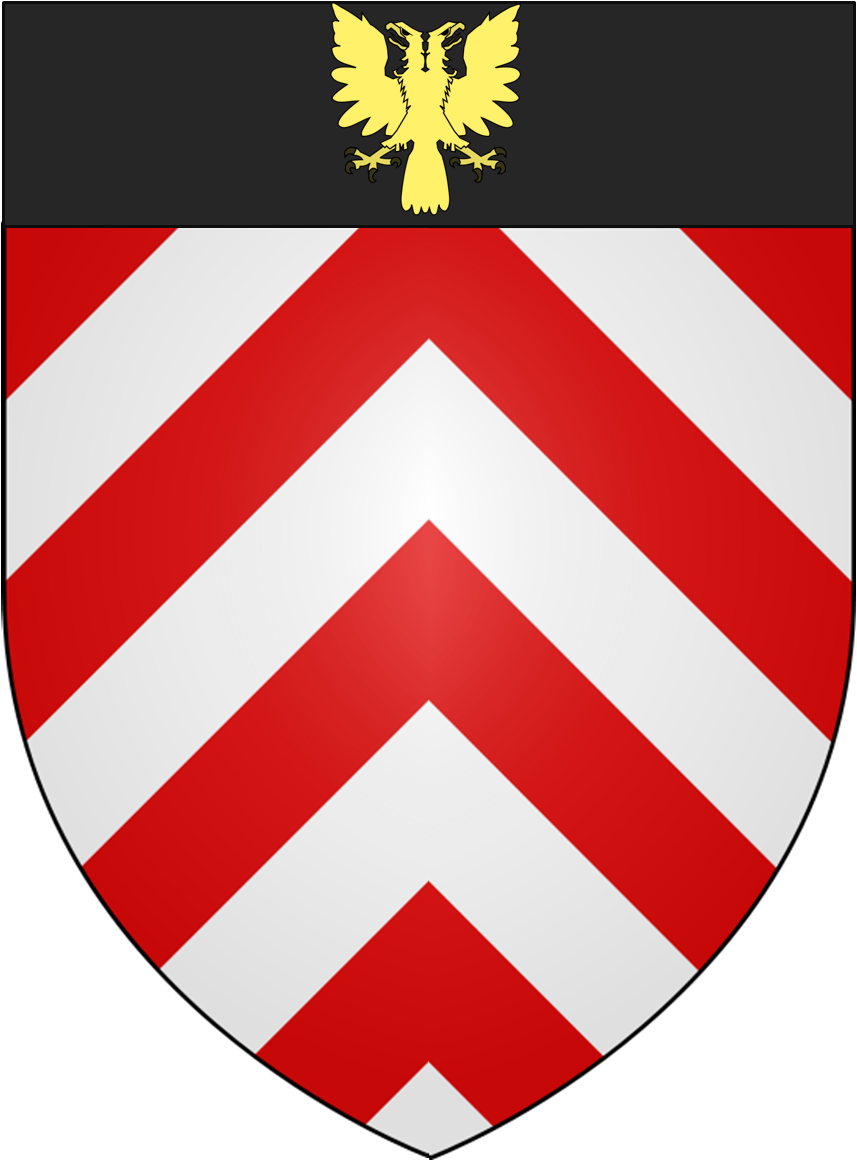 Coat of arms of "Corte di Casale", mediaval union of comunes with capital Canzo. My work, basing on and (free use).